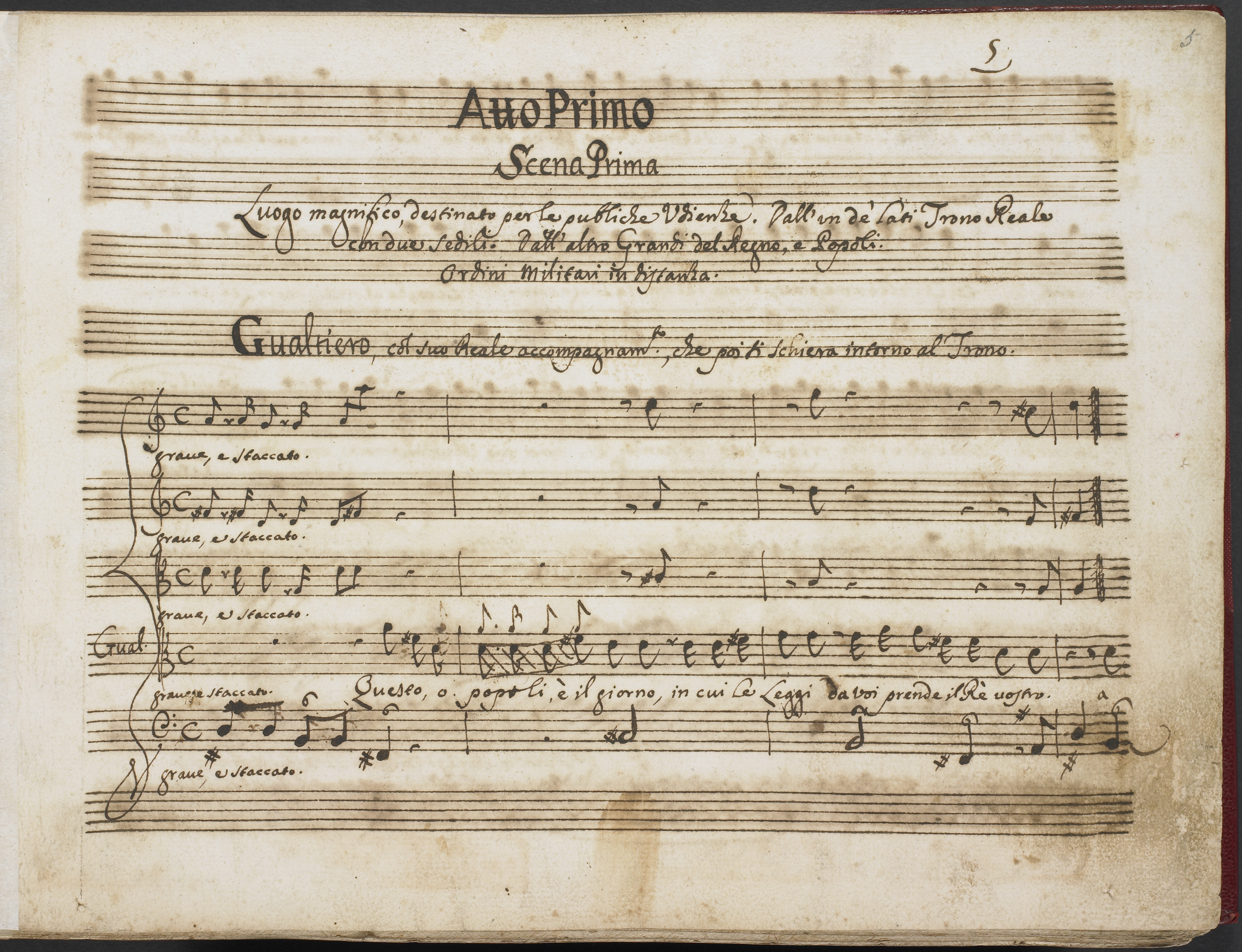 Act one, scene one, of Scarlatti's final opera Griselda (1721). In the composer's own hand.